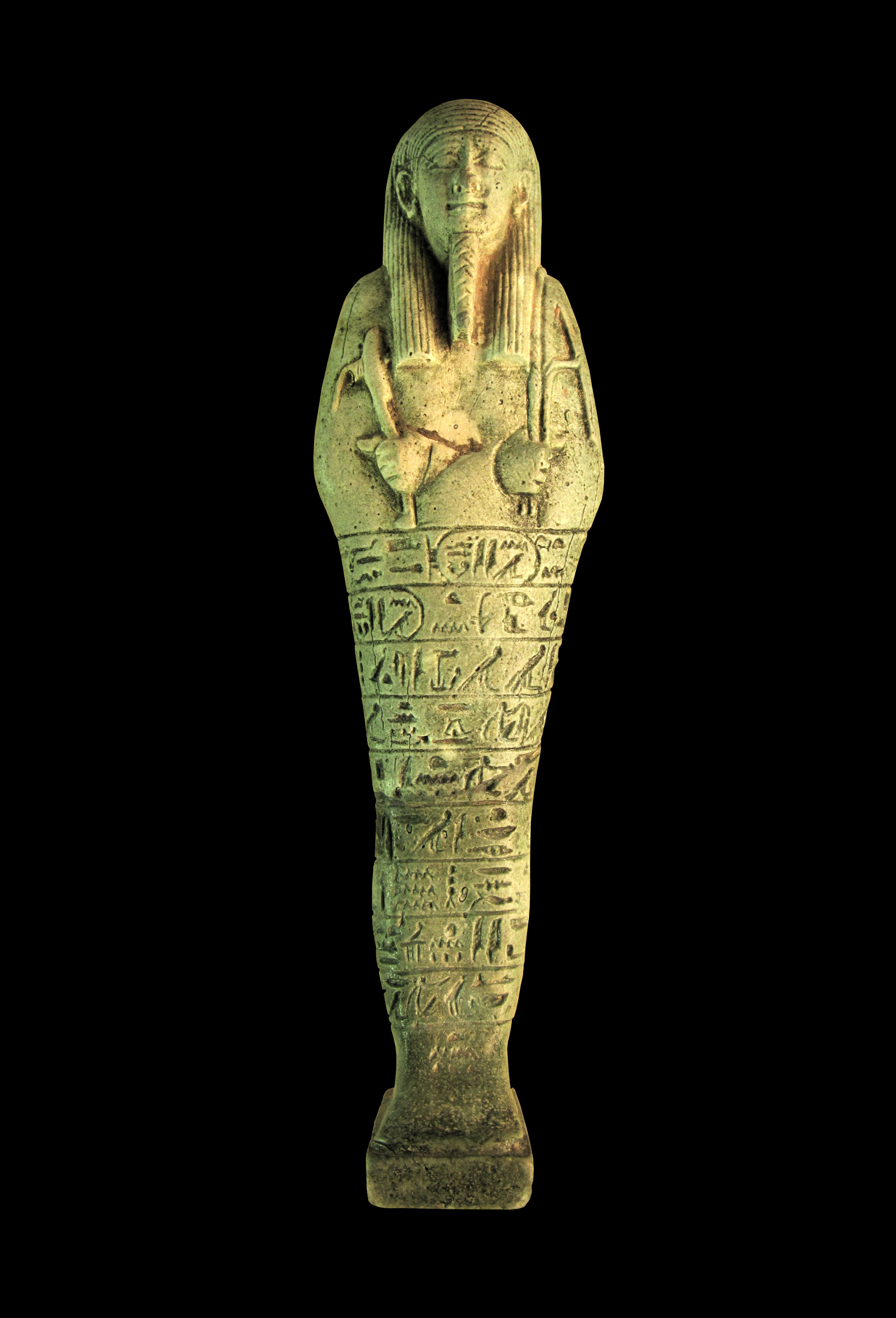 Statuette ushabti of Nepherites I, enemalled earth. Late era.